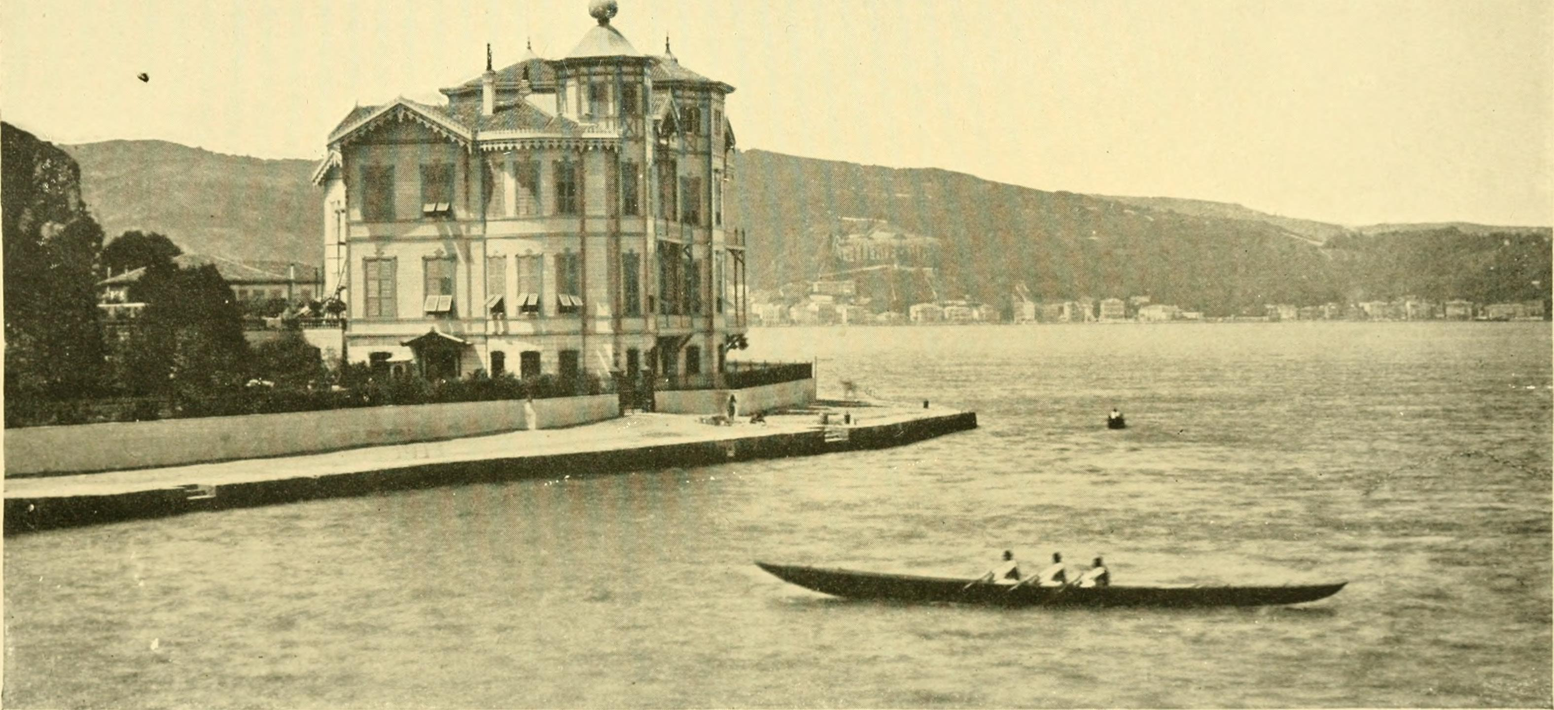 Title: My Russian and Turkish journals Year: 1916 (1910s) Authors: Dufferin and Ava, Harriot Georgina Blackwood, Marchioness of, 1843?-1936 Subjects: Russia -- Description and travel Russia -- Social life and customs Turkey -- Description and travel Turkey -- Social life and customs Publisher: New York, C. Scribner's sons Text Appearing Before Image: ' Text Appearing After Image: The British Embassy, Therapia, burnt down in 1911. Bugykdere in the distance. - FIRST IMPRESSIONS 129 the evening, and so began to make acquaintance with them. Friday, lyth.—This morning everything looks very lovely. The sun is very bright, and I have opened all my outside wooden shutters, so as to give me the best views everywhere. While things are new tome, I will tell you two or three of the customs of the place. The minute the Ambassador gets into his caique,the flag is hoisted, the consequence being that each time we pass a mail steamer, or a government vessel,or a ship belonging to one of the other Embassies, ahorn blows, or a drum beats, and the Ambassador is saluted, and has to take off his hat in reply. When this happens three or four times in half an hour it becomes rather comic to us who look on, and rather aggravating to D. Then, the cavass who walks before us when we go out is very funny. He has a tremendous swagger,as he goes along, sword in hand, and you may imagine how ver